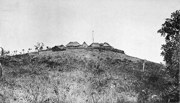 Photo of the German Station Bismarckburg in Togo.